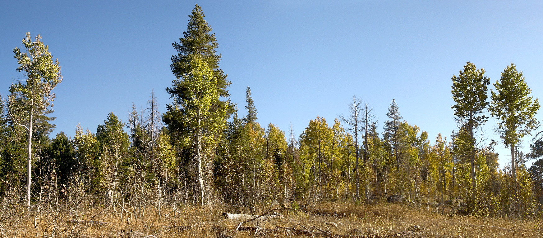 Aspens along the Lyons Creek Trail, near Lake Tahoe